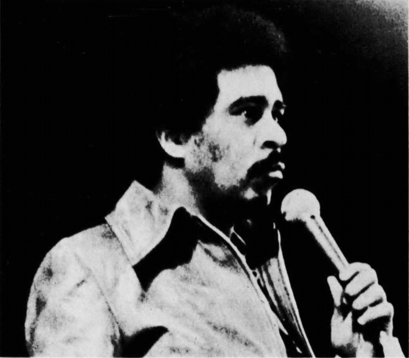 Richard Pryor performing at San Jose State University on April 3, 1974